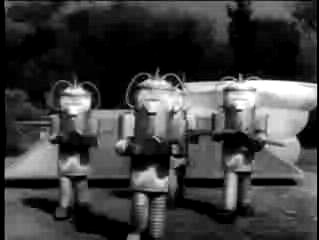 Screen shot from the public domain serial, Undersea Kingdom (1936). The villain's "Volkite" robots emerging from the "Juggernaut" tank.